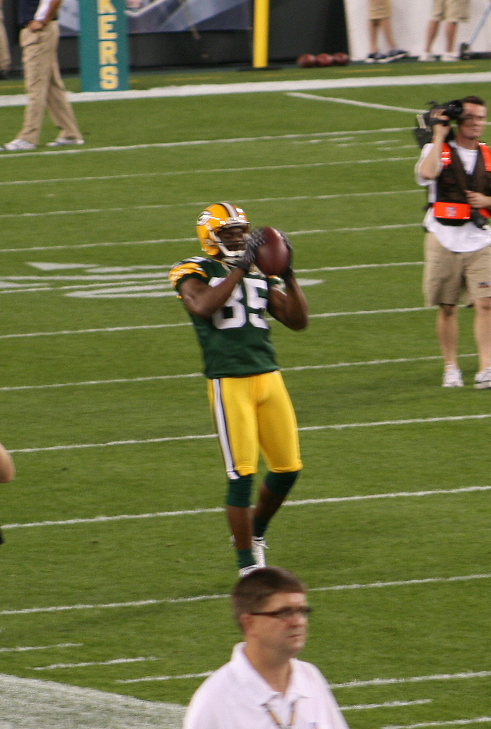 Wide receiver Greg Jennings warming up before a game.